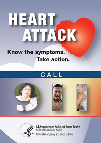 Cover of information card illustrating some of the symptoms of heart attack (a lay term for myocardial infarction) and encouraging calling the emergency services in case they present.